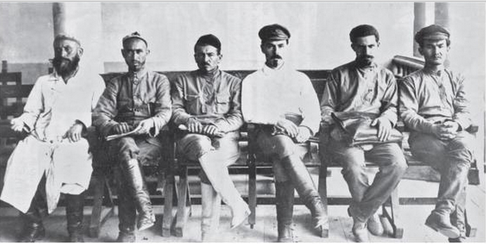 The members of the Turkestan Commission of the Russian Communist Party (Bolsheviks).. The third from the right is Grigory Sokolnikov and the second from the right is Lazar Kaganovich. The others were ordinary members of the Turkestan Commission.